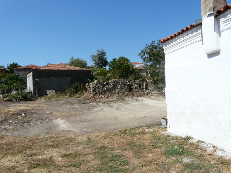 Ruins in Tavri